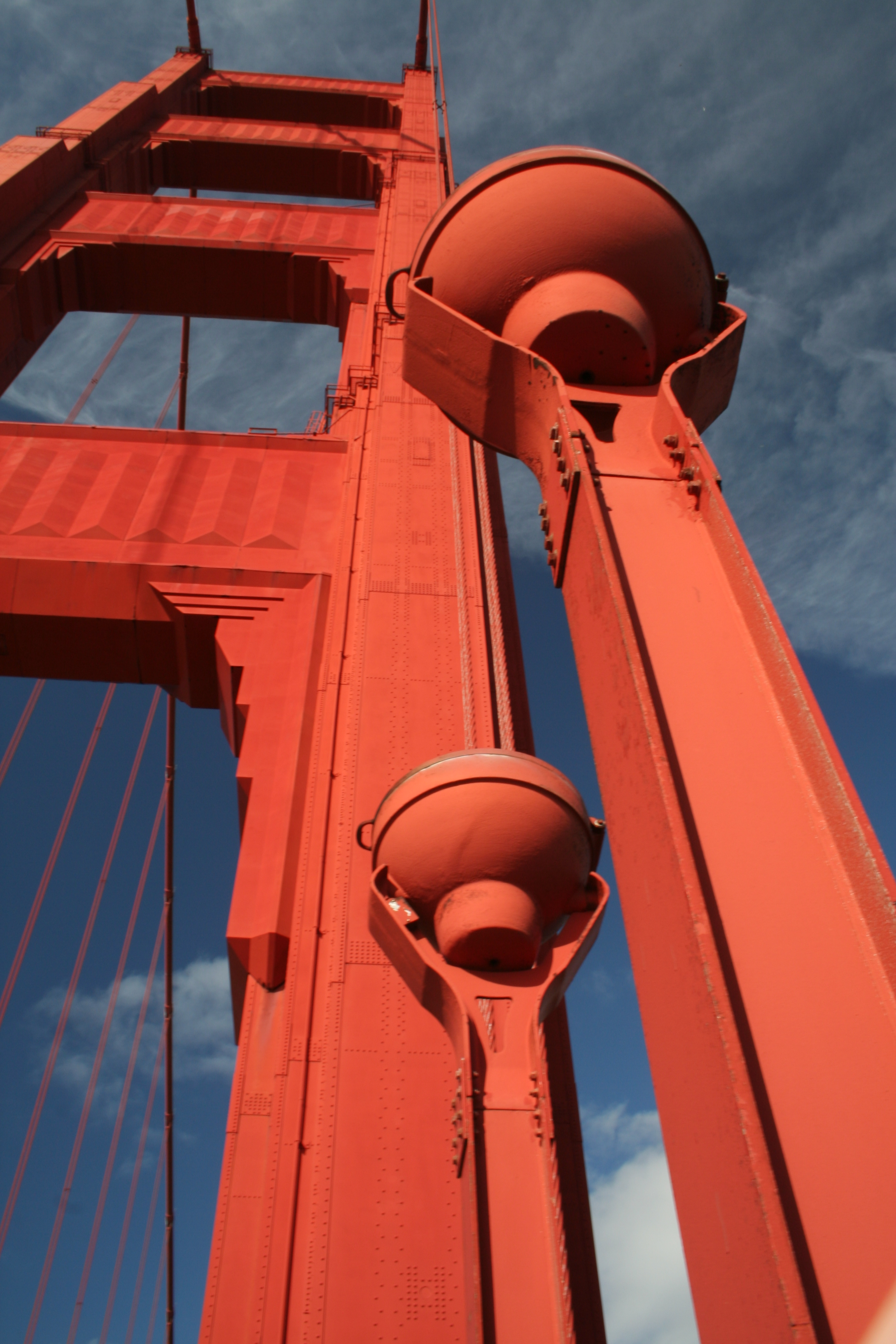 Photographed by and copyright of (c) David Corby (User:Miskatonic, uploader) 2006 The Golden Gate Bridge.